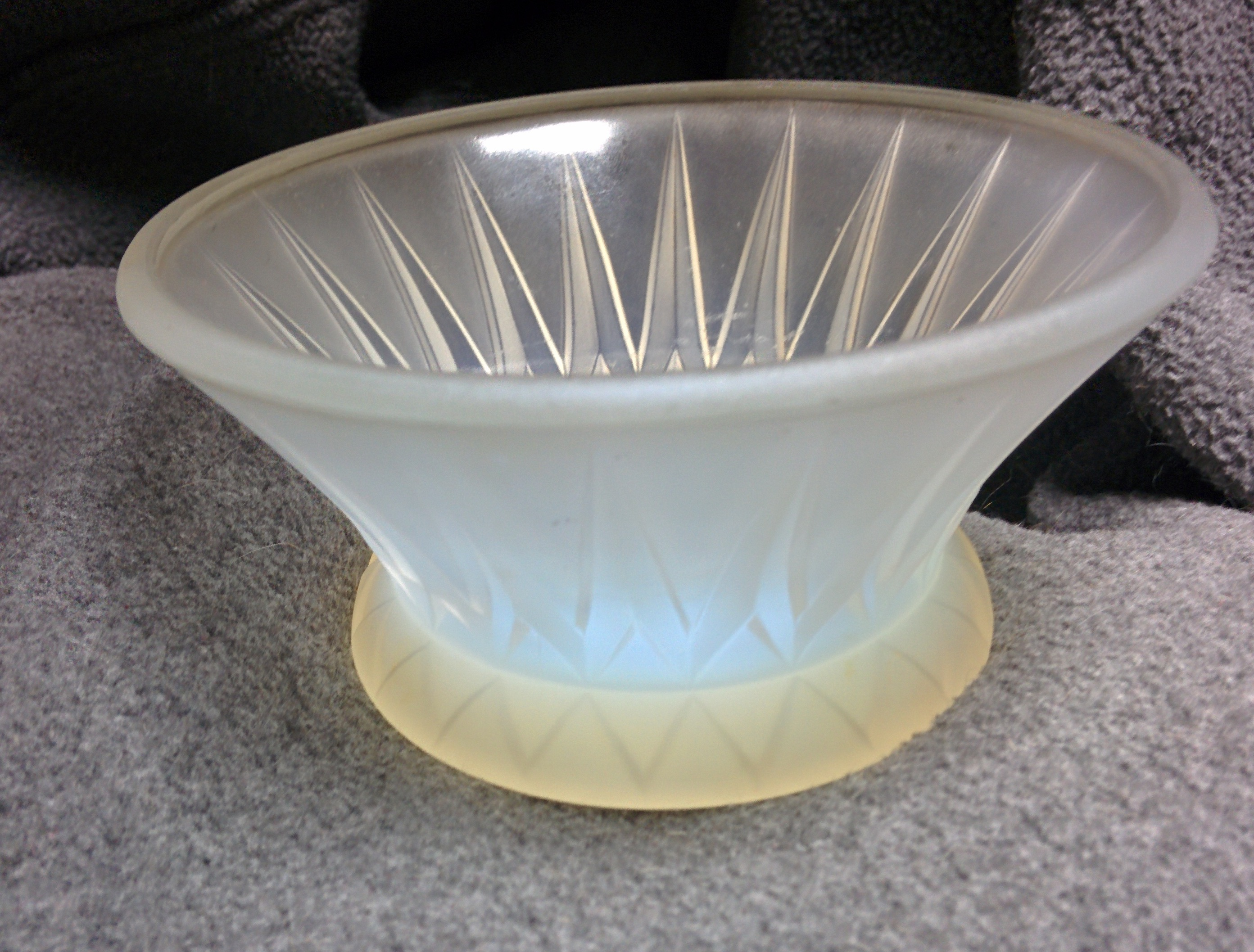 Small flared bowl (coupe) by André Hunebelle, circa 1930. "Cactus" pattern tableware. Crystal glassware: mold-blown glass, polished interior, matte exterior, blue opalescent bottom; colorless portions glow amber when illuminated. Dimensions: diameter at top rim - 12.72 cm; diameter of base - 8.90 cm; height - 6.35 cm. Marked "MADE IN FRANCE."